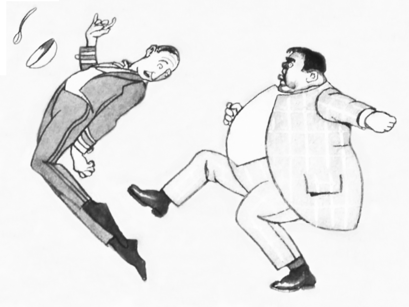 "No personal attacks!"